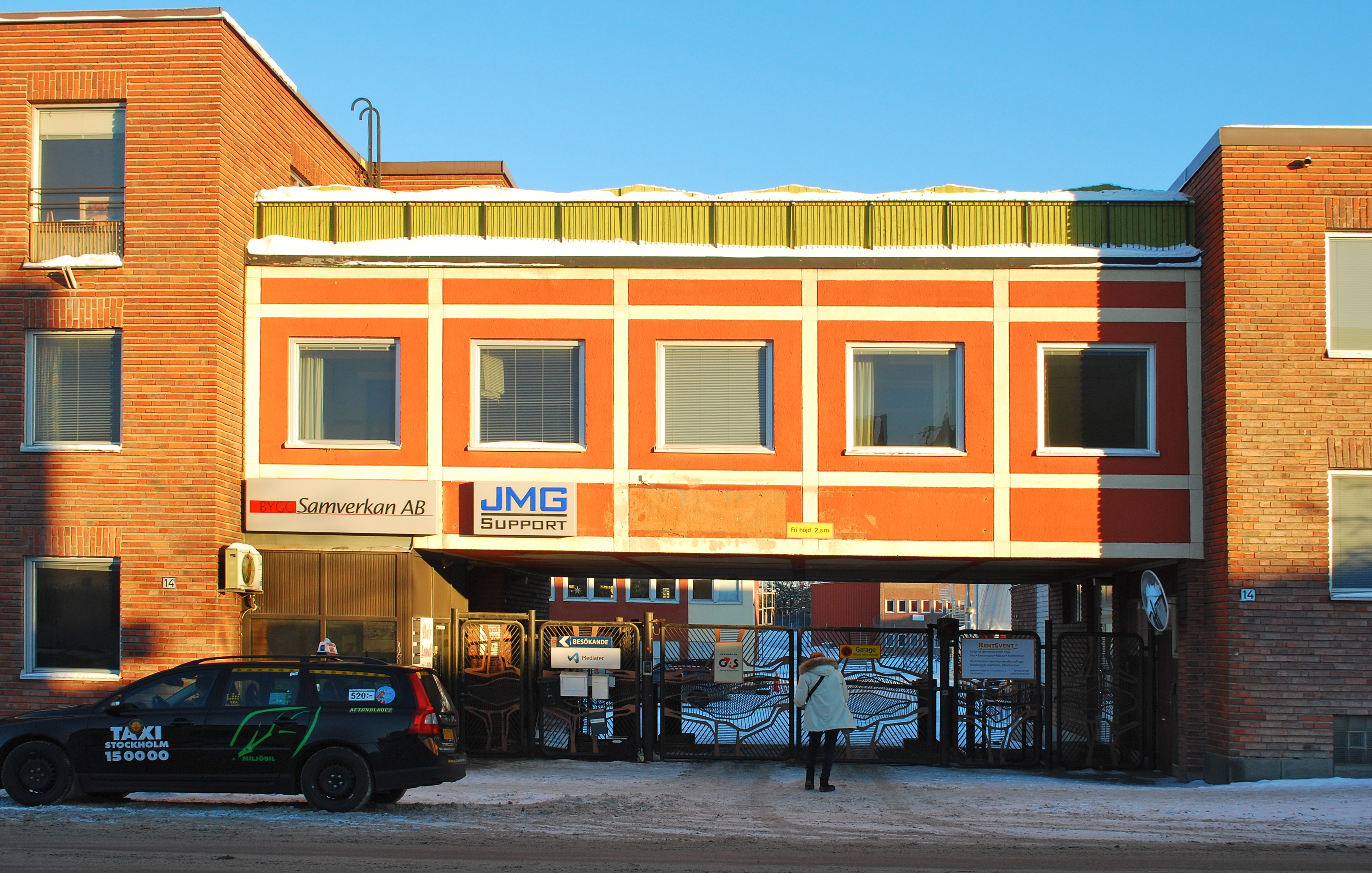 Entrance to former FFA building, December 2010.